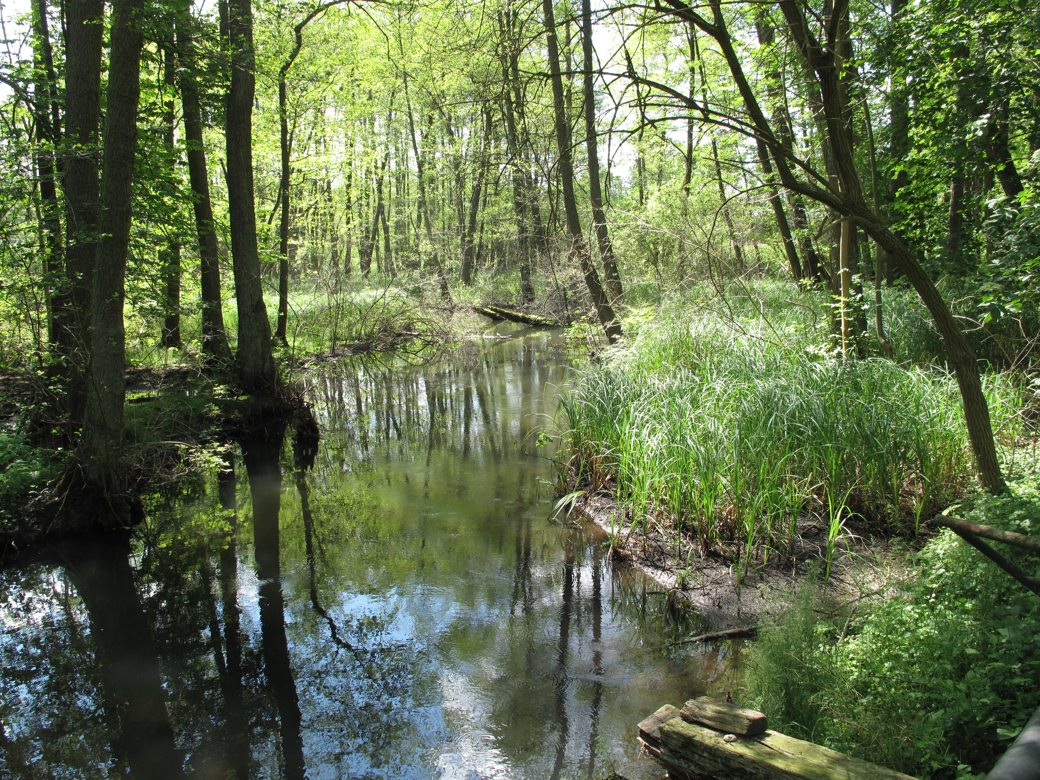 River Löcknitz in the Nature area Löcknitztal nearby Kienbaum. The village Kienbaum is a part of the municipality Grünheide, District Oder-Spree, Brandenburg, Germany. The village had in 2011 approximately 300 inhabitants.